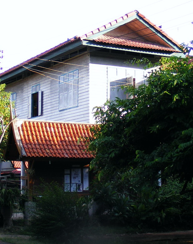 Wat Kungtapao Folk Museum. at Wat Khung Taphao, Ban Khung Taphao, Khung Taphao subdistrict, Mueang Uttaradit, Uttaradit Province, Thailand.) on December 2, 2008.